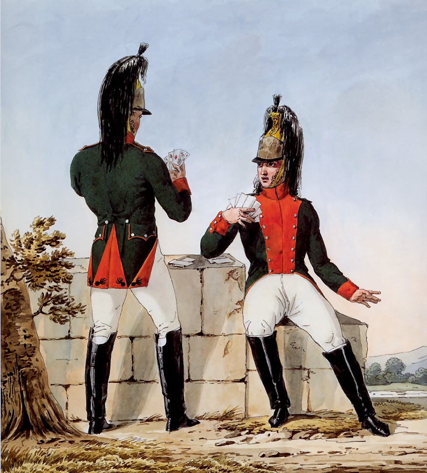 Part of a series chronicling the uniforms of Napoleon's Grande Armée.